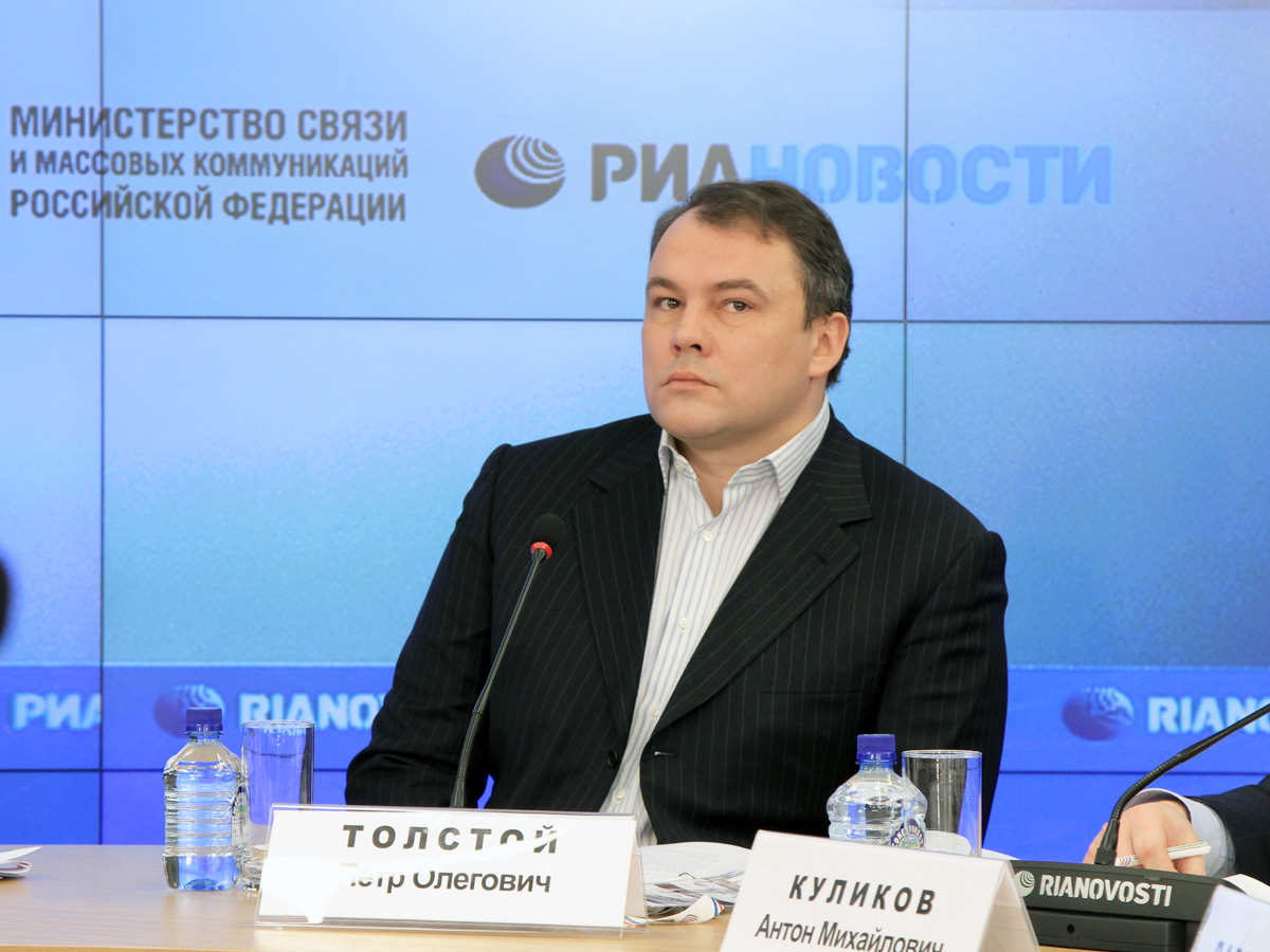 Member of the Board of Guardians of the Safe Internet League Pyotr Tolstoy at the 2012 Safe Internet Forum in Moscow.